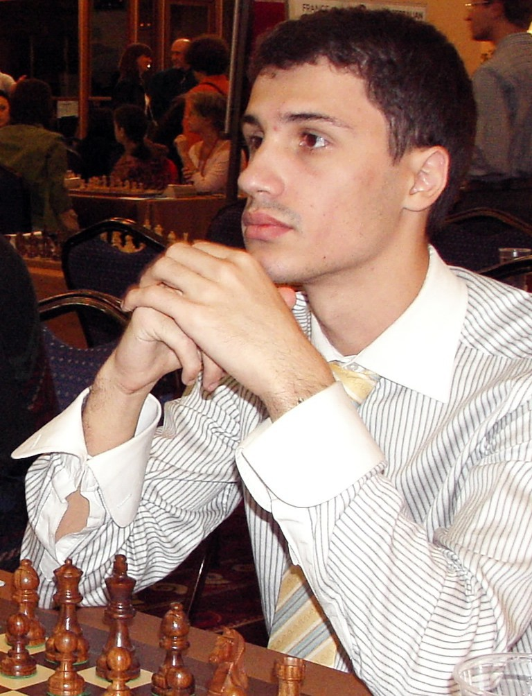 GM Ivan Cheparinov Bulgaria, EuroChess Iraklion 2007